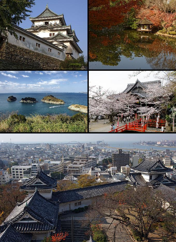 Wakayama Castle, Wakayama Castle Nishinomaru Garden, Saikazaki, Kimiidera Temple, View from the castle